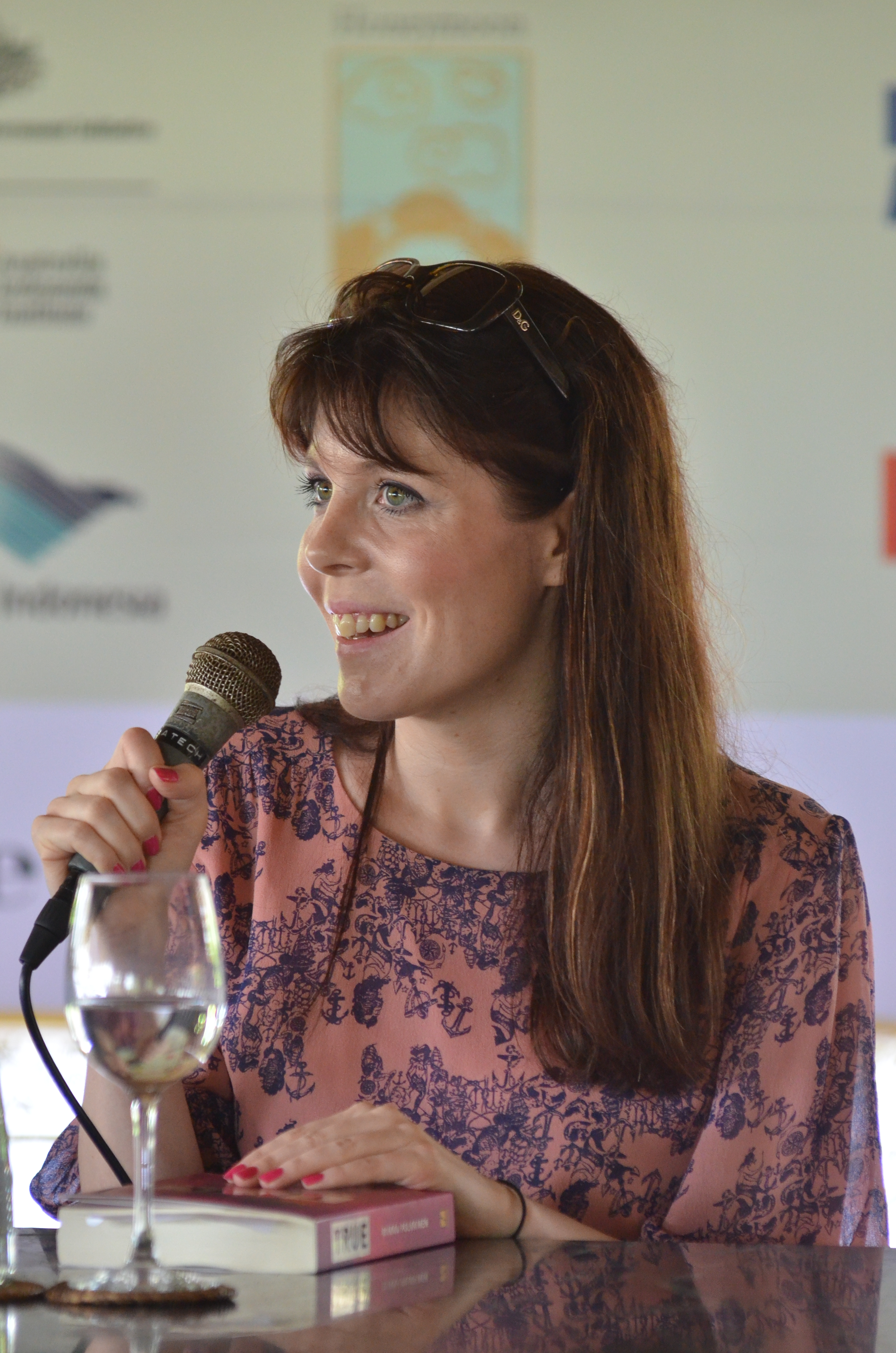 Ubud Writers & Readers Festival 2012. Image credit Anggara Mahendra.